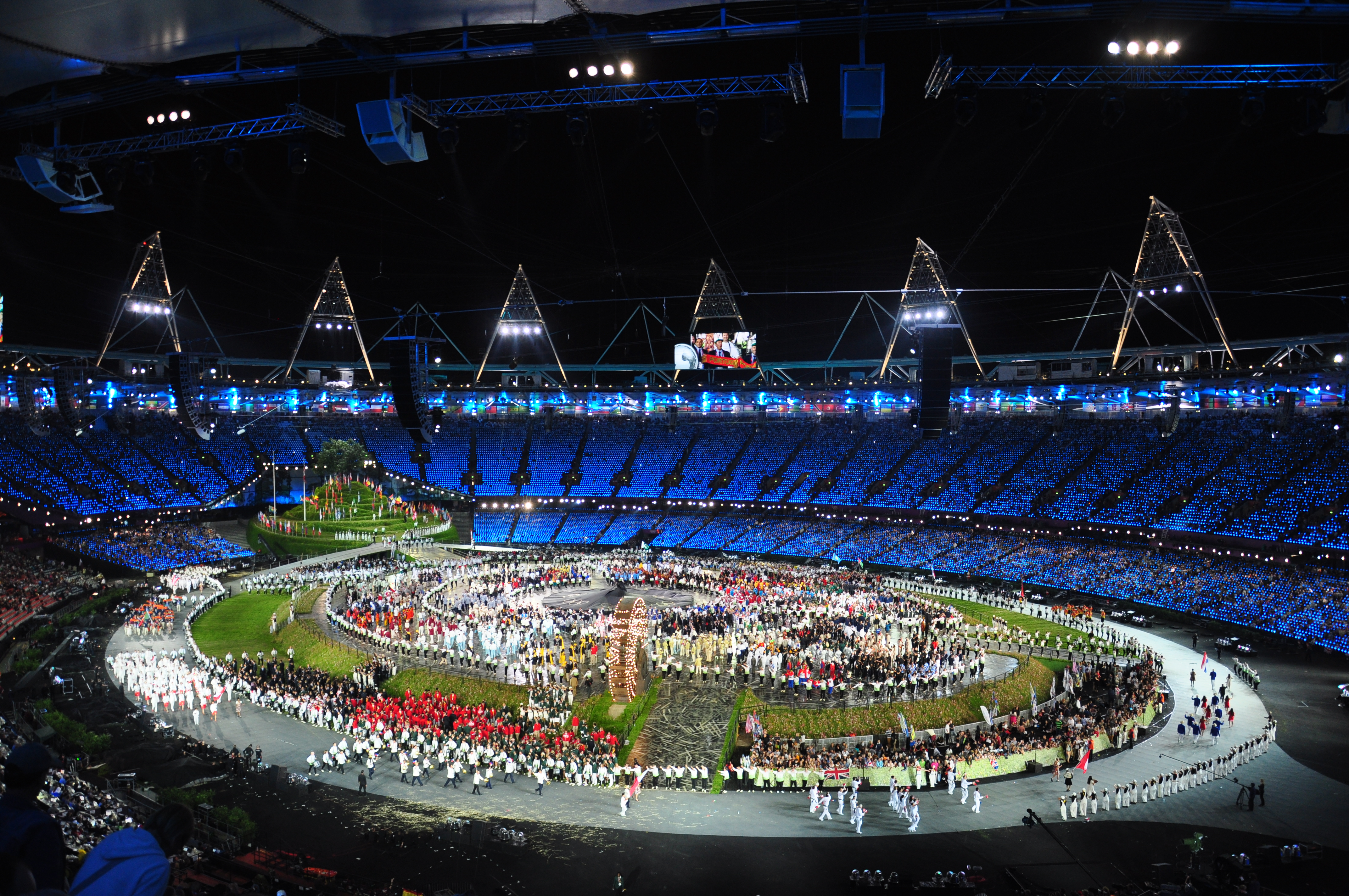 Teams parade around the stadium